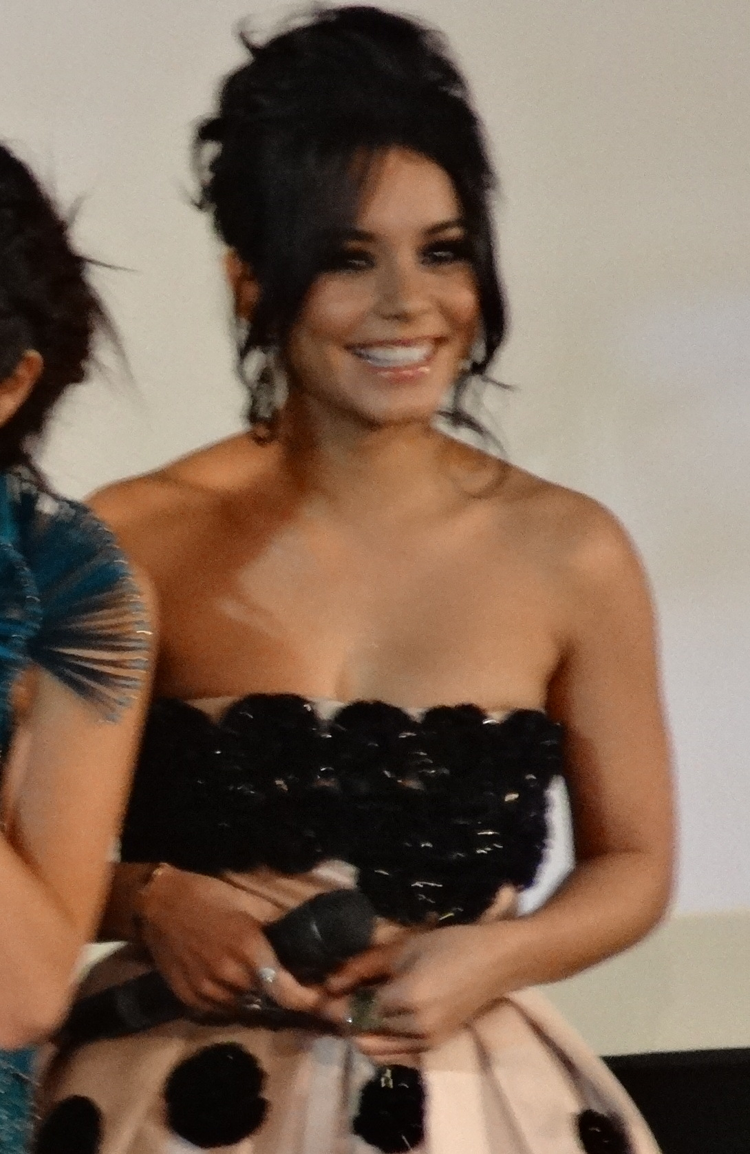 Spring Breakers Cast: Vanessa Hudgens at the AVP Paris Le Grand Rex (February 2013).